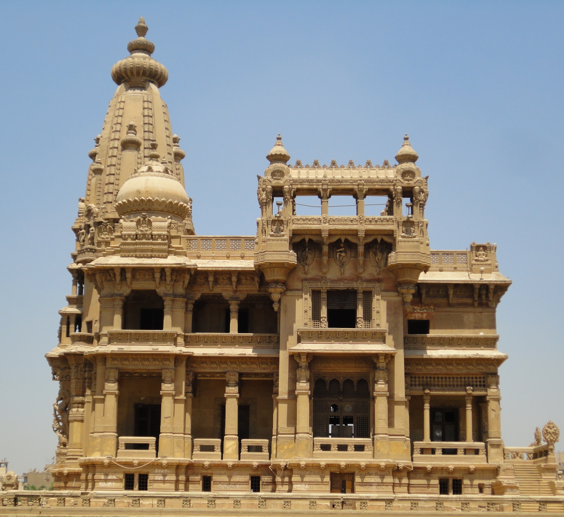 It is a distinctive and historic mansion in Heliopolis, a suburb northeast of central Cairo, Egypt.